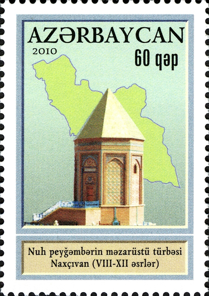 The historical architecture of Nakhchivan.